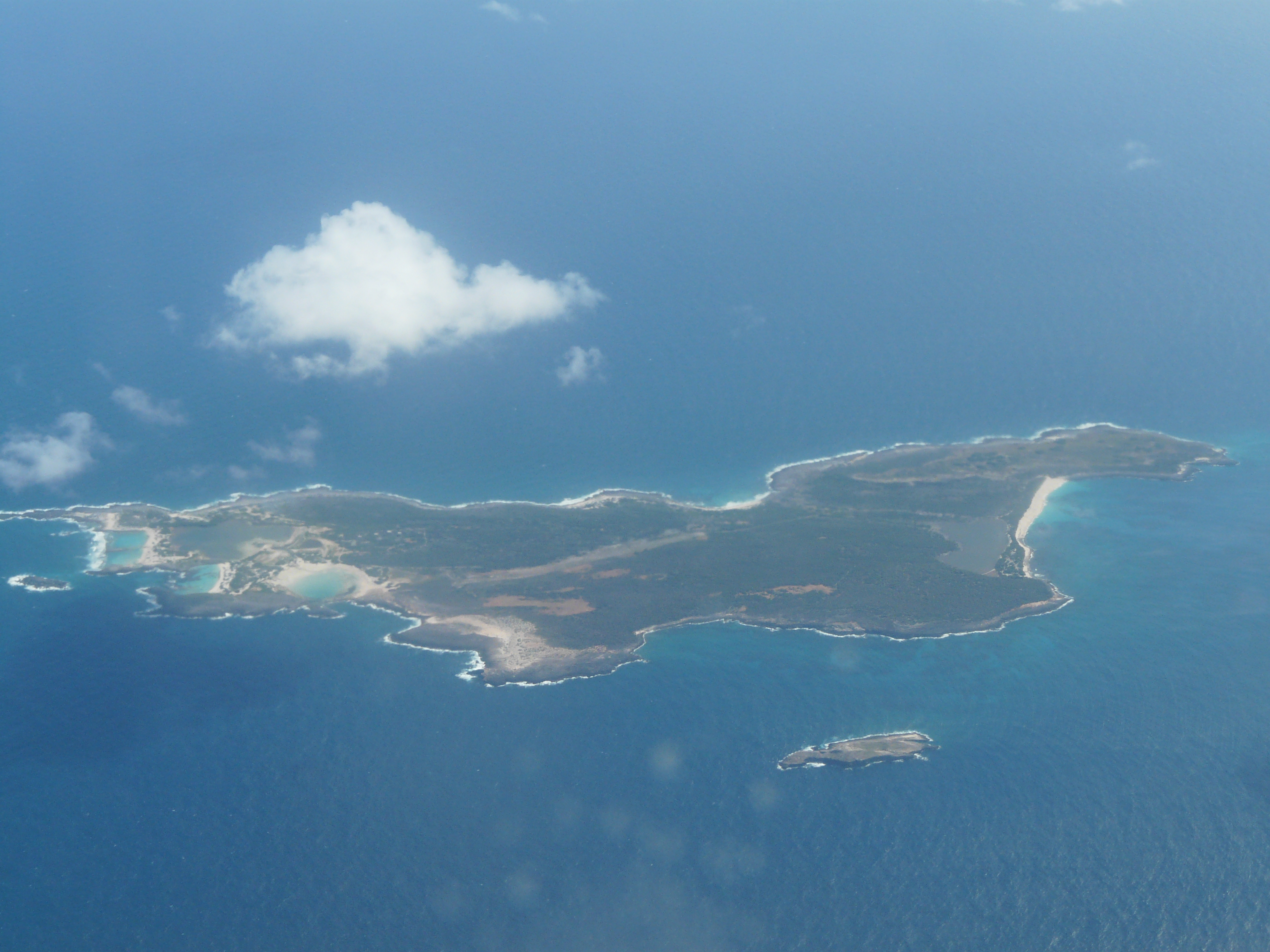 Scrub Island (British Virgin Islands), areal view.